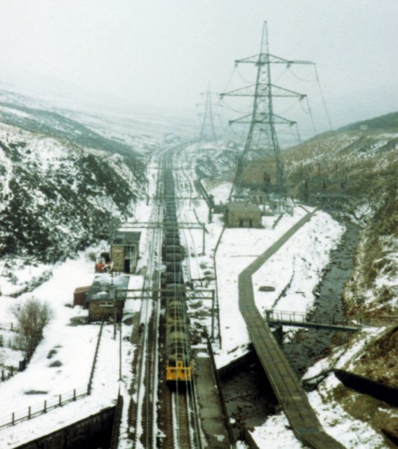 Woodhead Tunnel Approach. When the trains were still running.